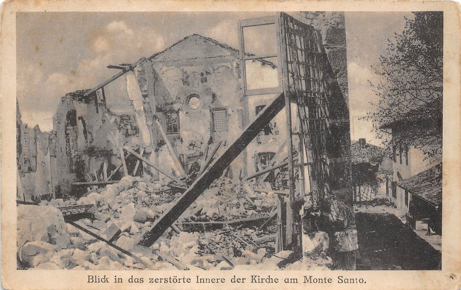 Postcard of Sveta Gora.